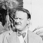 Sir Miles Lampson (1880–1964), British Ambassador to Egypt.